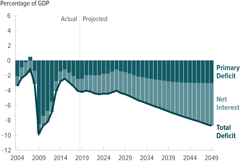 The actual and projected budget deficit of the United States federal budget by the CBO.